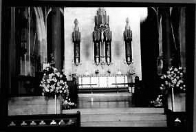 Inside the chancel of the former St Paul's Church, Harringay, London N4, which was destroyed by fire in 1984